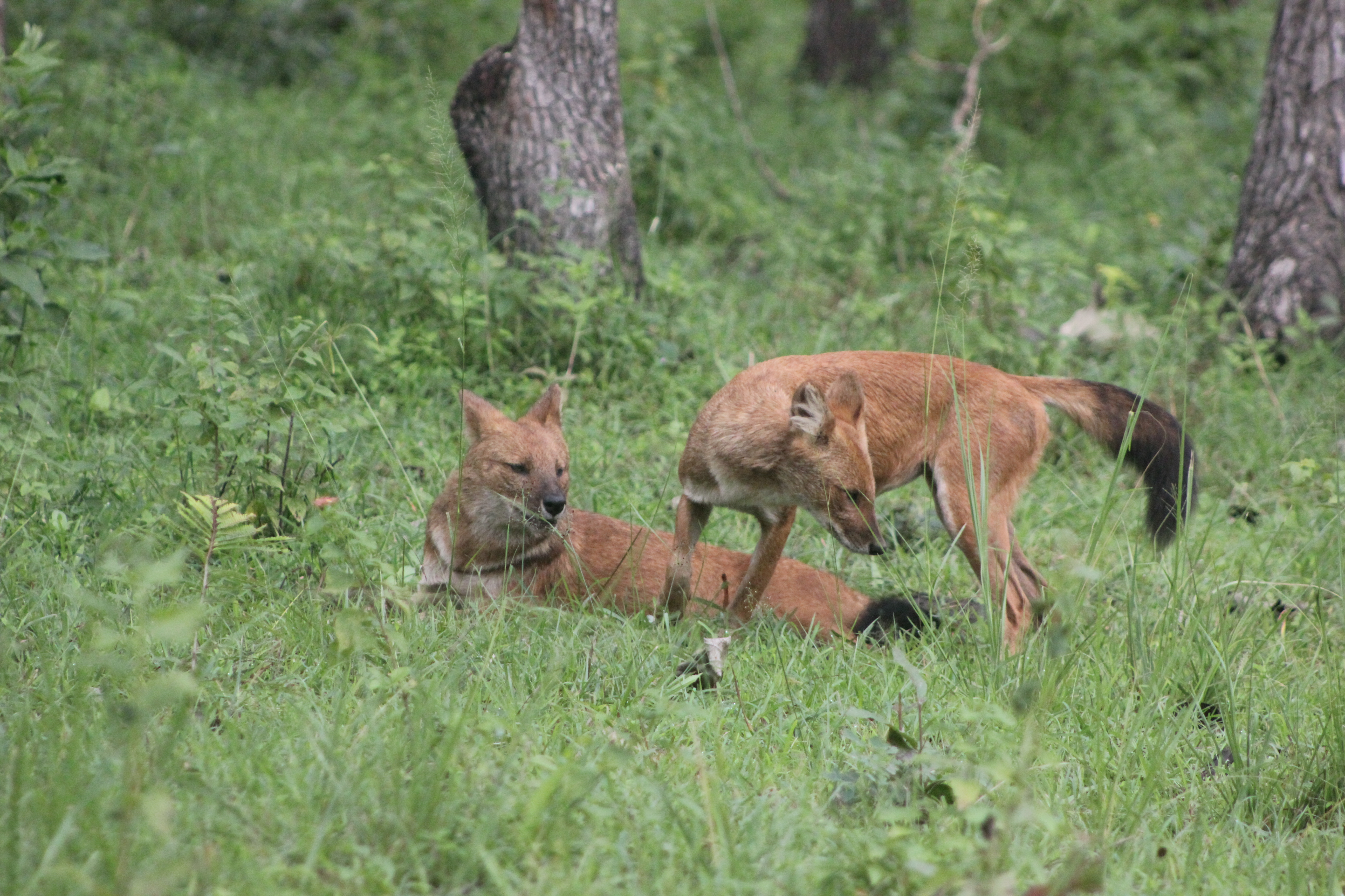 This photograph was taken by me at the Bandipur National park, Karnataka state, India.